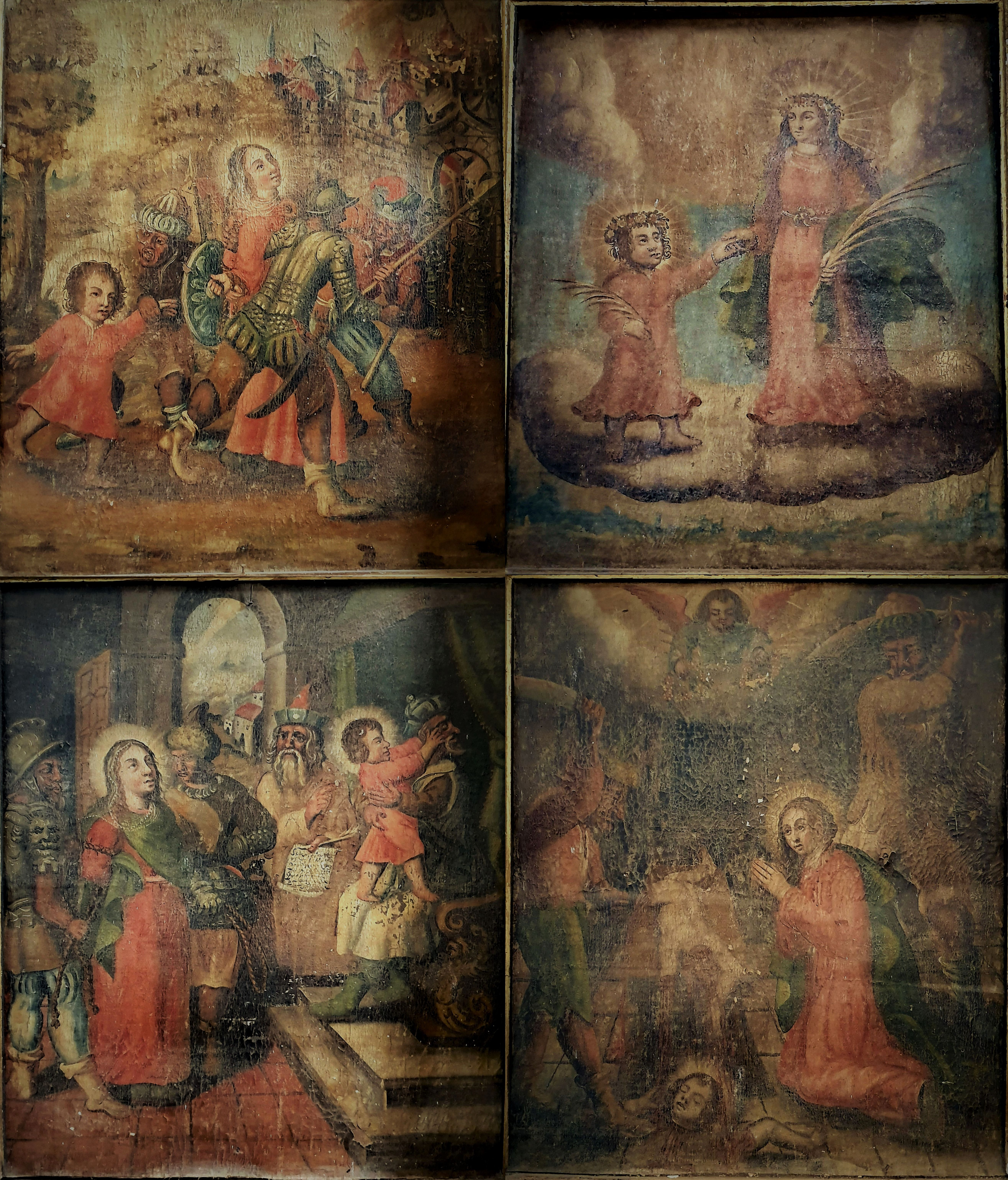 Composition with the life and martyrdom of Santa Julita and San Quirico in the Main Altarpiece of the Church of Our Lady in Villamelendro de Valdavia.